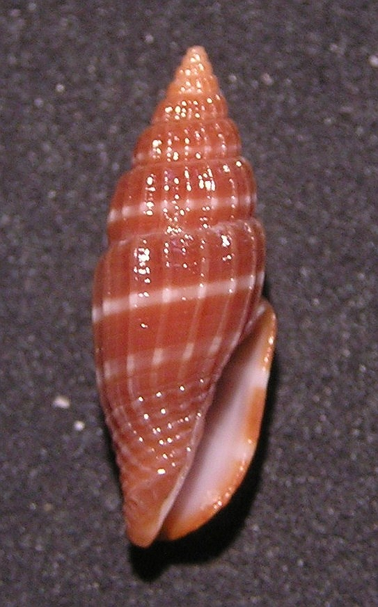 Vexillum (Pusia) exaratum (A. Adams, 1853); a ribbed miter in the family Costellariidae; Philippines